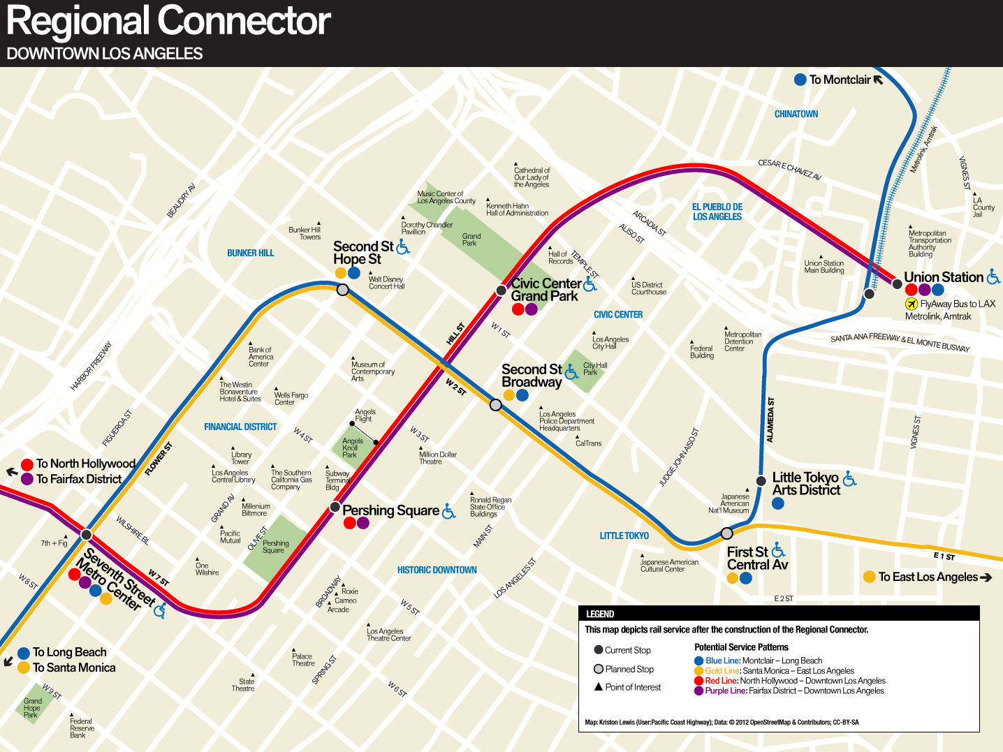 A map depicting the alignment of the Regional Connector Transit Corridor.